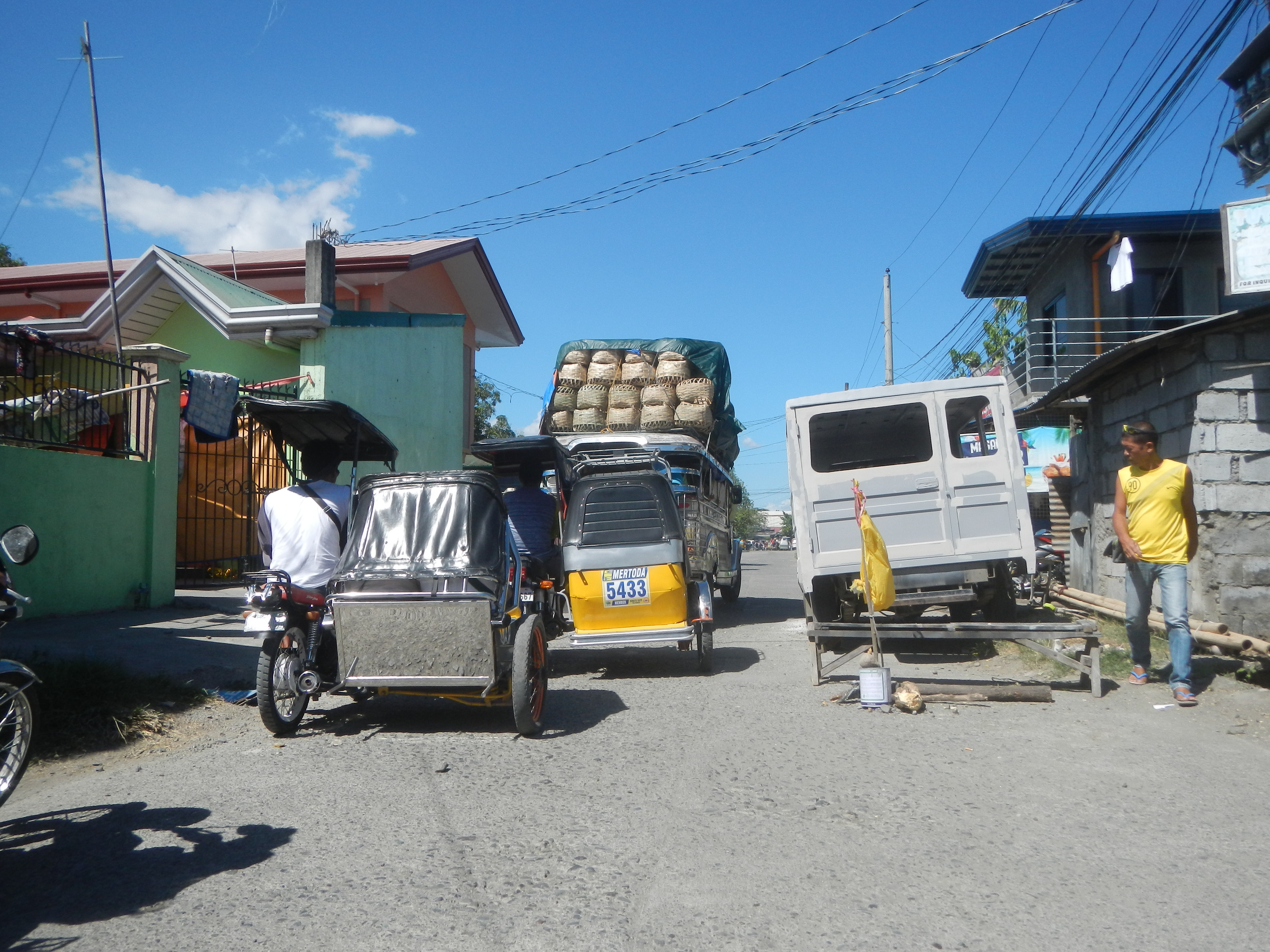 Bayanihan-Mangino-Pambuan Road, Gapan City passing (P. Cruz Subdivision Road & Farm-to-Market Roads, Barangays Mangino & Santa Cruz, Gapan City) in Barangays Bayanihan 15°17'54"N 120°58'13"E 56'51"E Tinio Street 15°18'47"N 120°57'9"E San Lorenzo 15°18'43"N 120°56'56"E Mangino 15°19'45"N 120°59'10"E P. Cruz Subdivison 15°18'40"N 120°57'28"E Pambuan 15°20'49"N 120°58'25"E, Gapan, Nueva Ecija bounded by beside Peñaranda, Nueva Ecija, gateway to and from Pan-Philippine Highway, also known as the Maharlika "Nobility/freeman" Highway in Cagayan Valley Road (Note: Judge Florentino Floro, the owner, to repeat, Donor Florentino Floro of all these photos hereby donate gratuitously, freely and unconditionally all these photos to and for Wikimedia Commons, exclusively, for public use of the public domain, and again without any condition whatsoever).